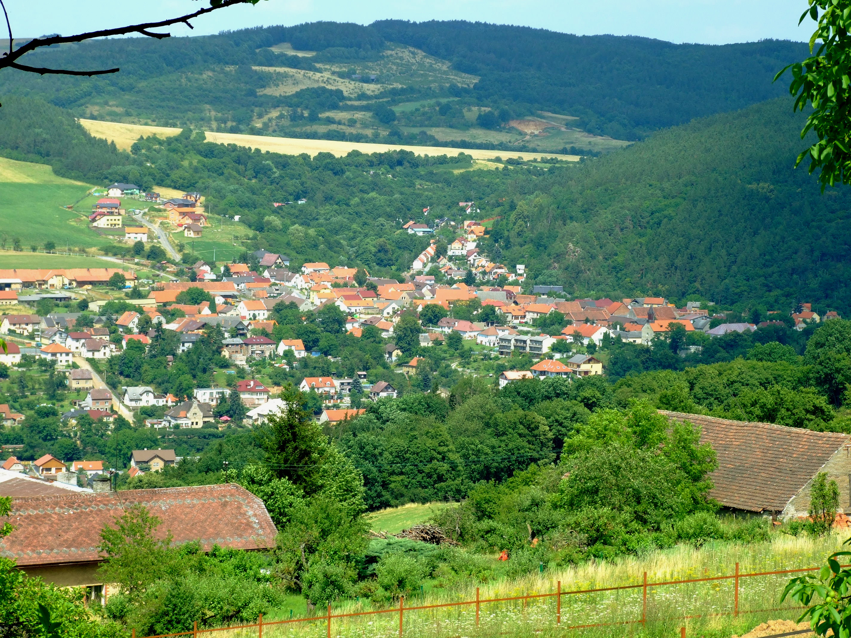 View of Hýskov village from Zdejcina, now a part of Beroun town, Central Bohemian region, CZhelp